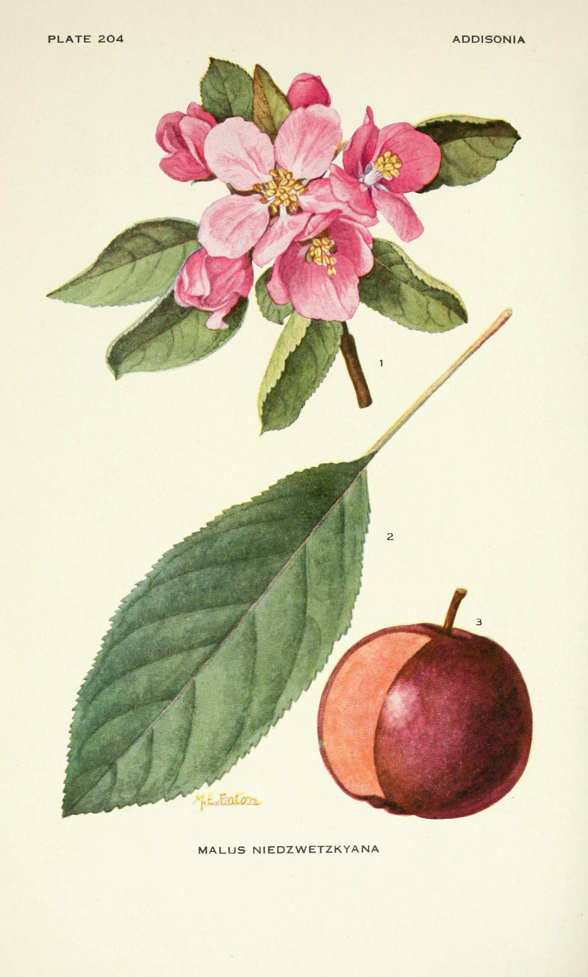 Illustration of Malus Niedzwetzkyana from a 1921 botanical compendium.